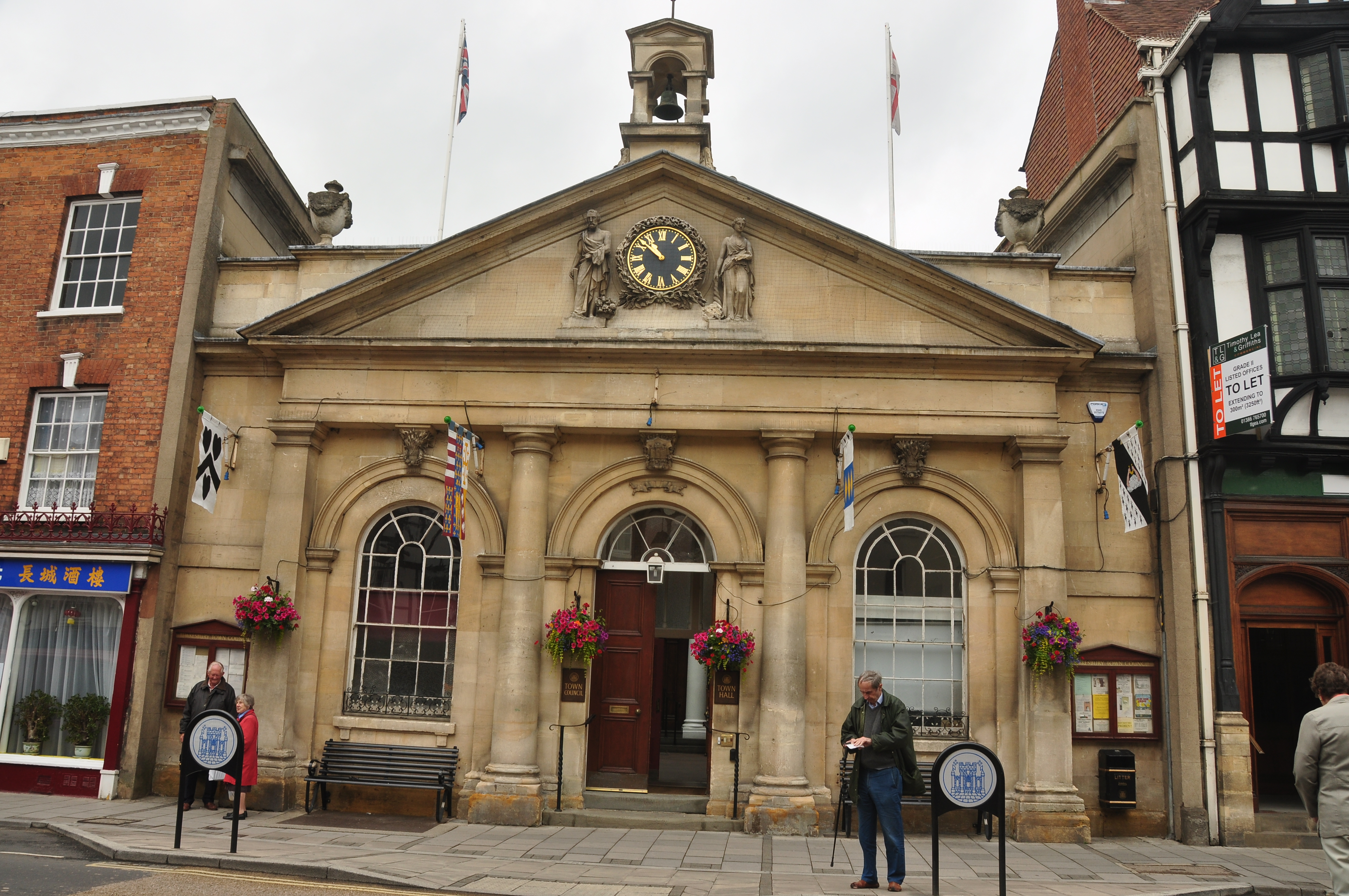 Tewkesbury Town Hall doubled as the "savings bank" in the Father Brown tv episode "The Paradise of Thieves" (2015).